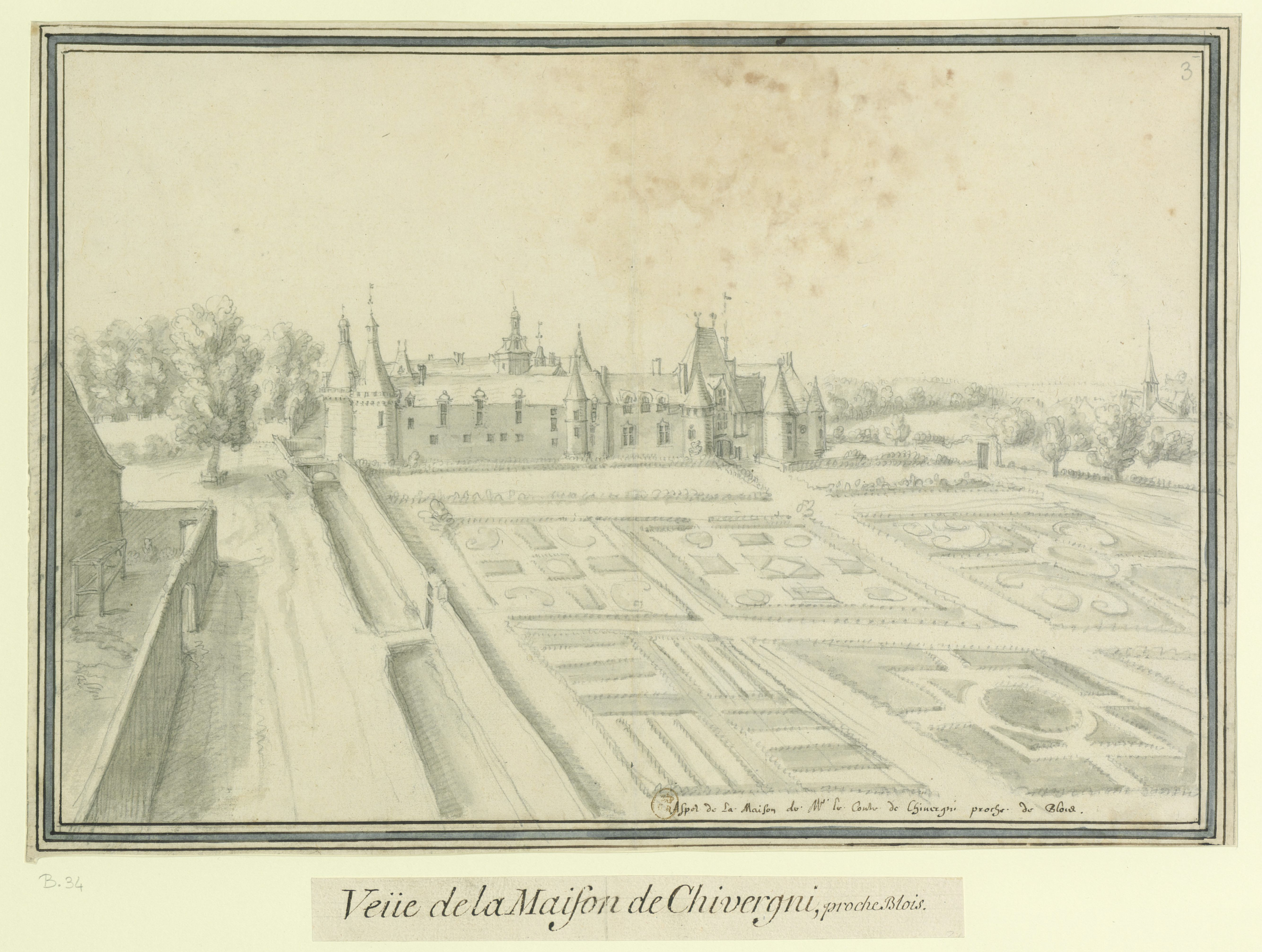 View of the Château de Cheverny, drawing by Étienne Martellange